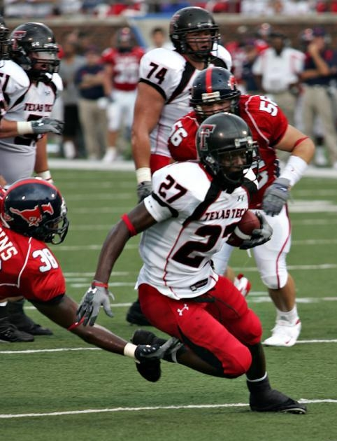 Photo credit: Jay Davis. Edward Britton of the Red Raiders of Texas Tech University @ SMU Mustangs on September 3, 2007. The Red Raiders defeated the Mustangs, 49-9.